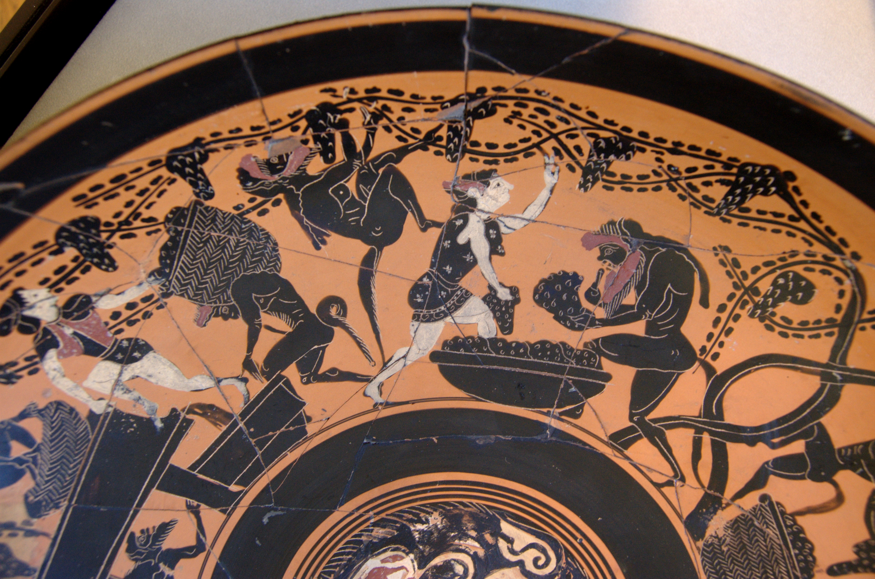 Vintage by sileni and maenads. Attic black-figure cup, end of 6th century BC.